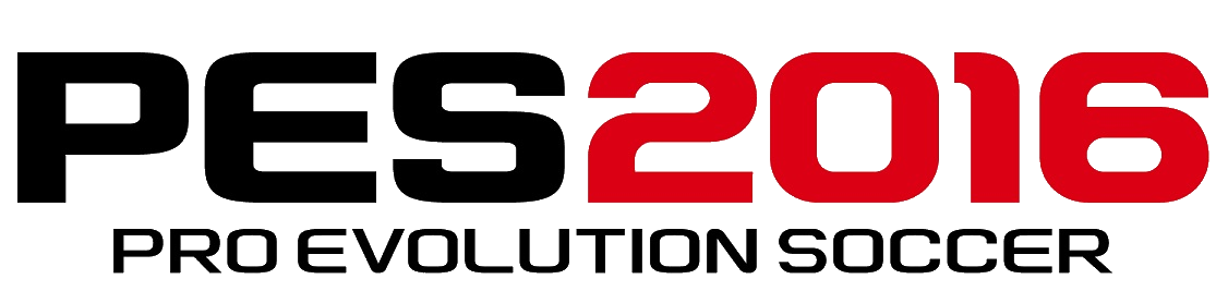 Pes 2016 logo,is an association football video game and the latest edition of the Pro Evolution Soccer series, developed and published by Konami.